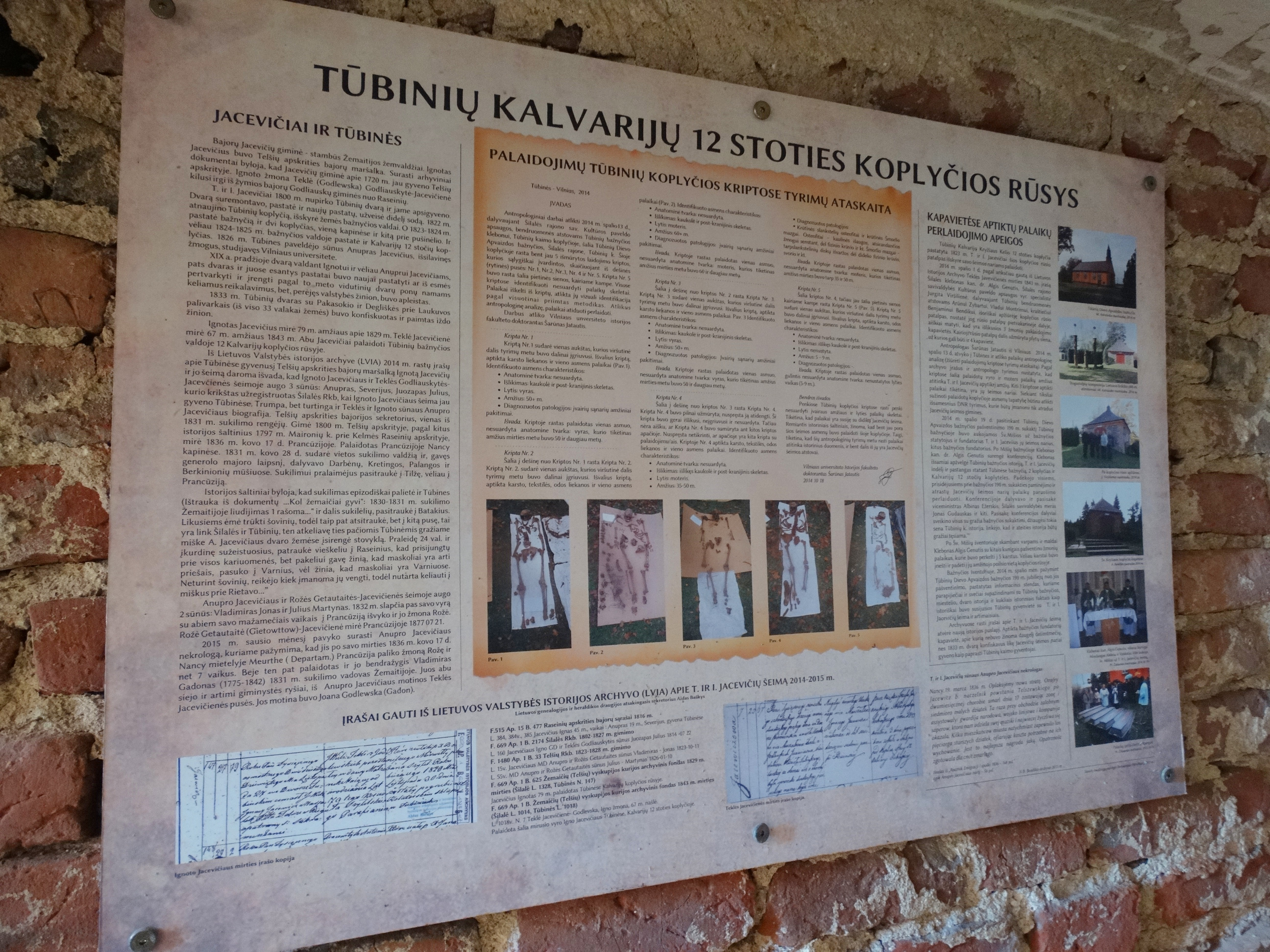 Chapel of the Holy Cross, information board, Tūbinės, Šilalė district, Lithuania